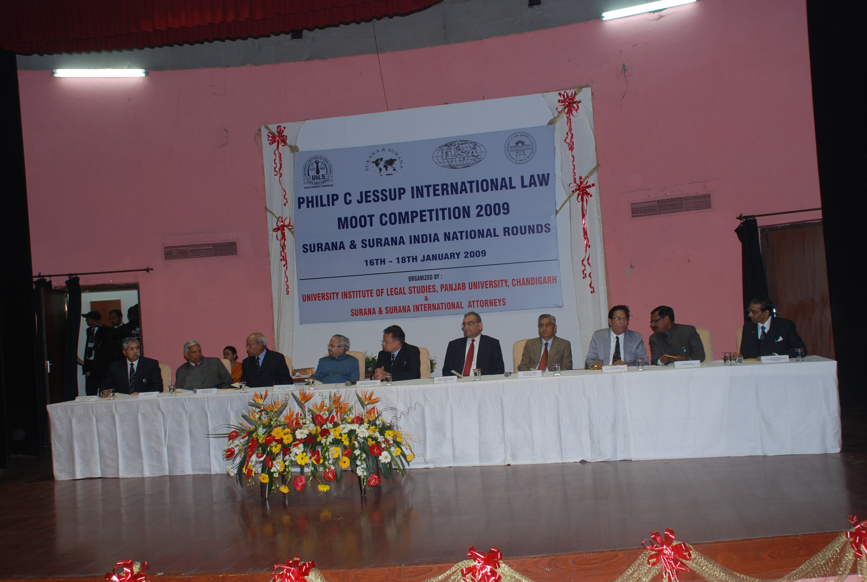 Jessup 2009 - Prof. P S Jaswal, G K Chathrath, Justice G S Singhvi, Dalveer Bhandari, Justice Markandey Katju, Justice J S Thakur, Sobti, Mr. P S Surana, Founder & Partner, Surana & Surana International Attorneys